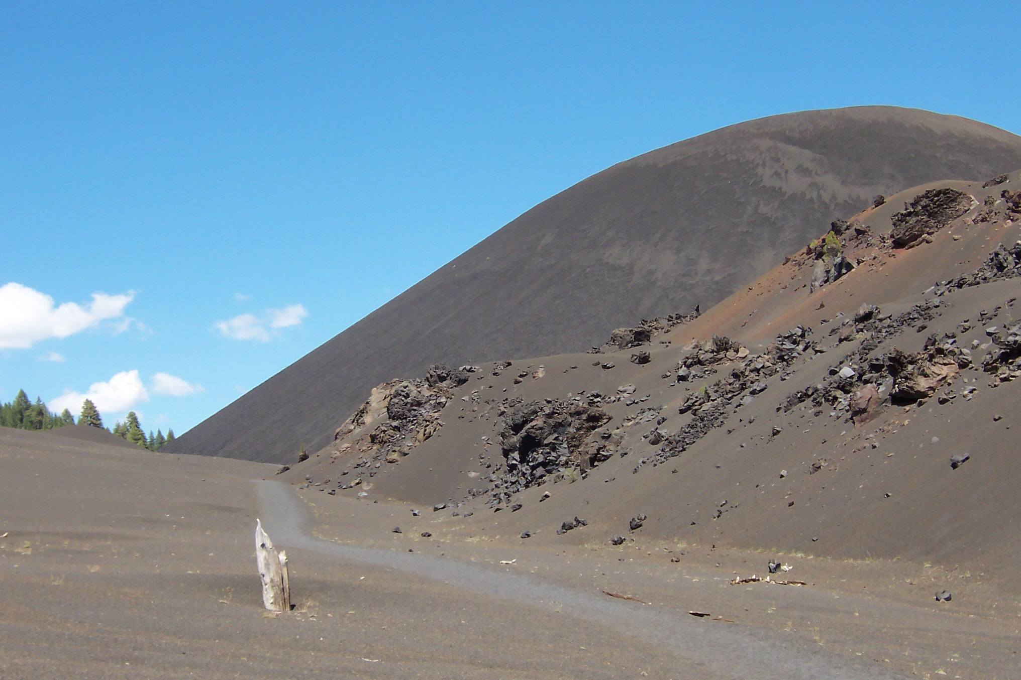 Cinder Cone, the southern flank. Lassen Volcanic National Park, California, USA.